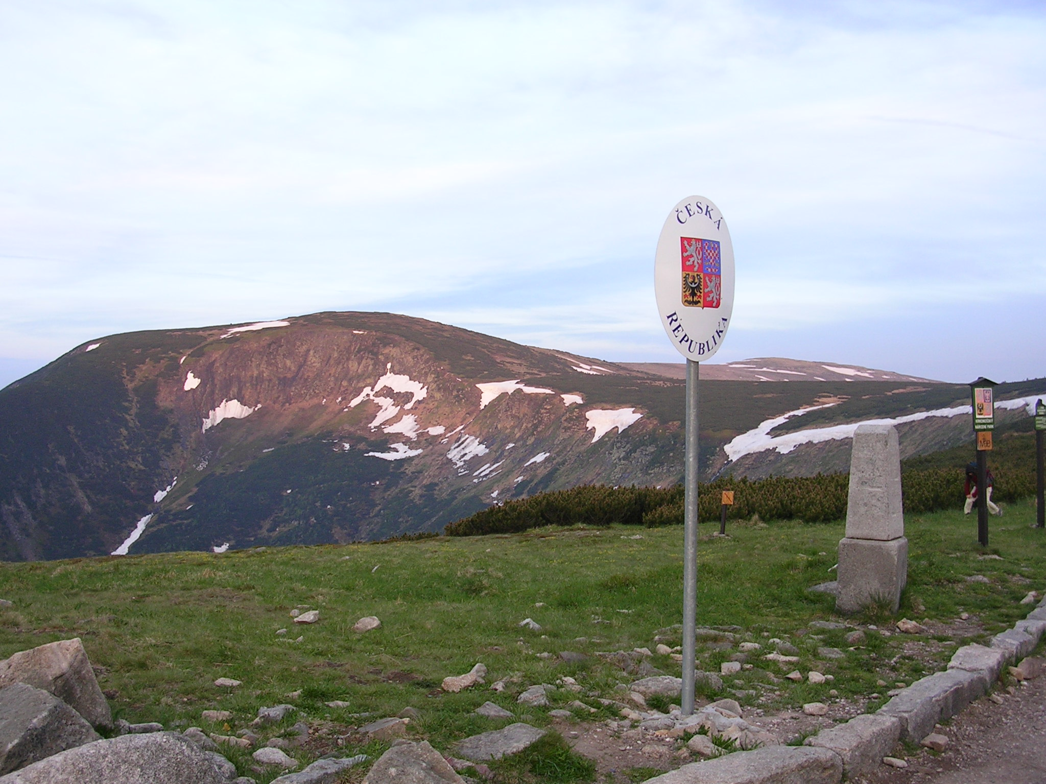 Karkonosze Mountains, Poland and the Czech Republic.